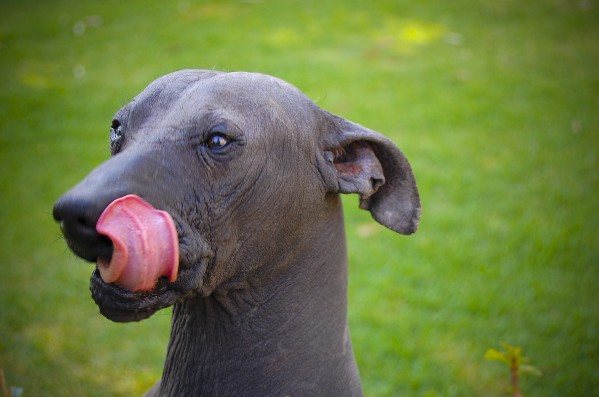 Xoloitzcuintli or Xoloitzcuintle (in English pronounced /ʃoʊloʊi:tskwi:ntli/ shoh-low-eats-quint-lee) or Mexican Hairless Dog. Etimology: From Nahuatl. Xolot - Aztec god of life and death or Monster. itzcuintli - Dog.